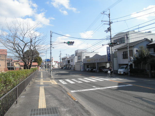 Chudentown 新開 Komatsushimacity Tokushimapref Tokushimaprefectural road 17 Komatsushima port line